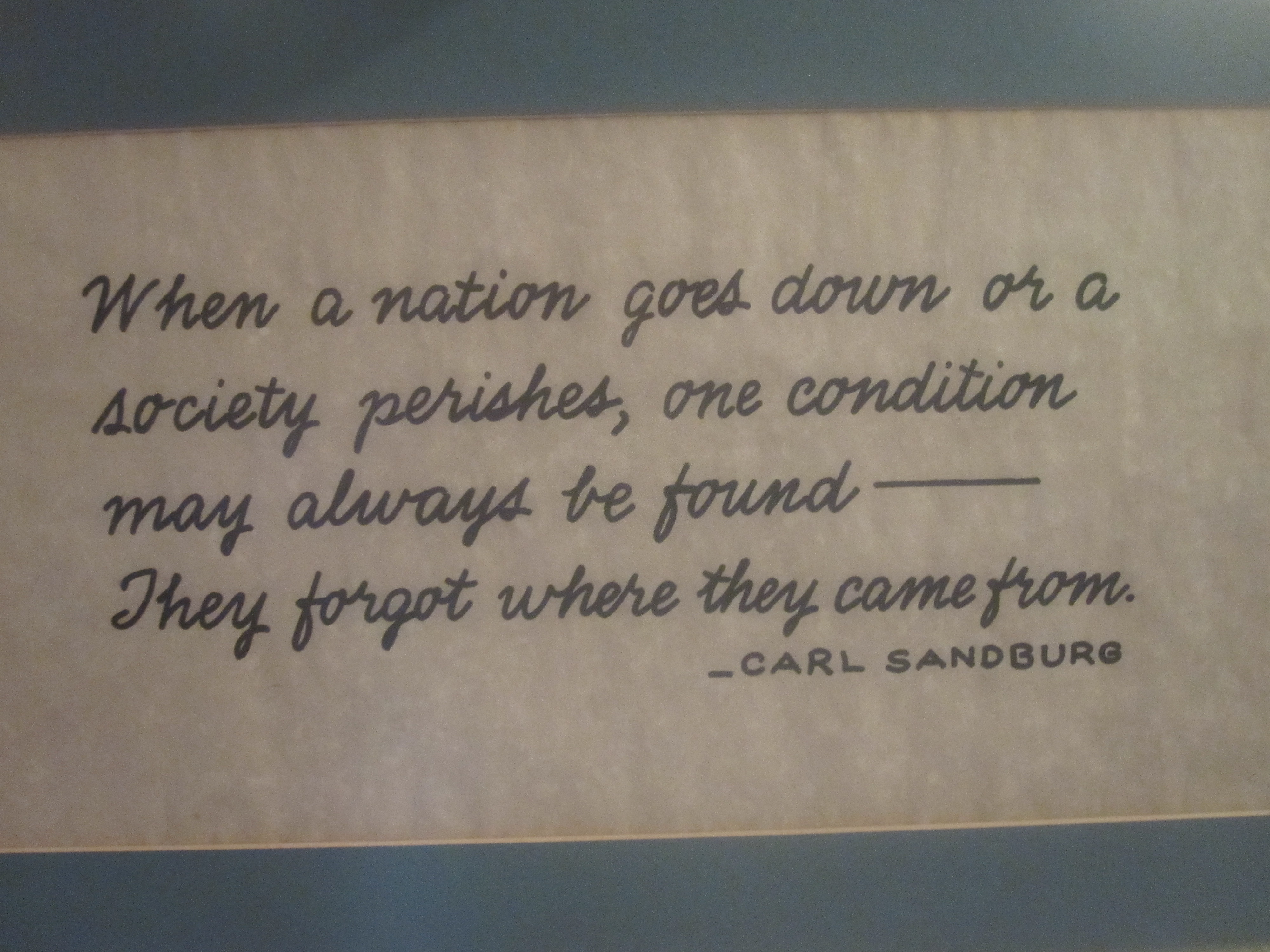 I took photo with Canon camera in Hereford, TX.